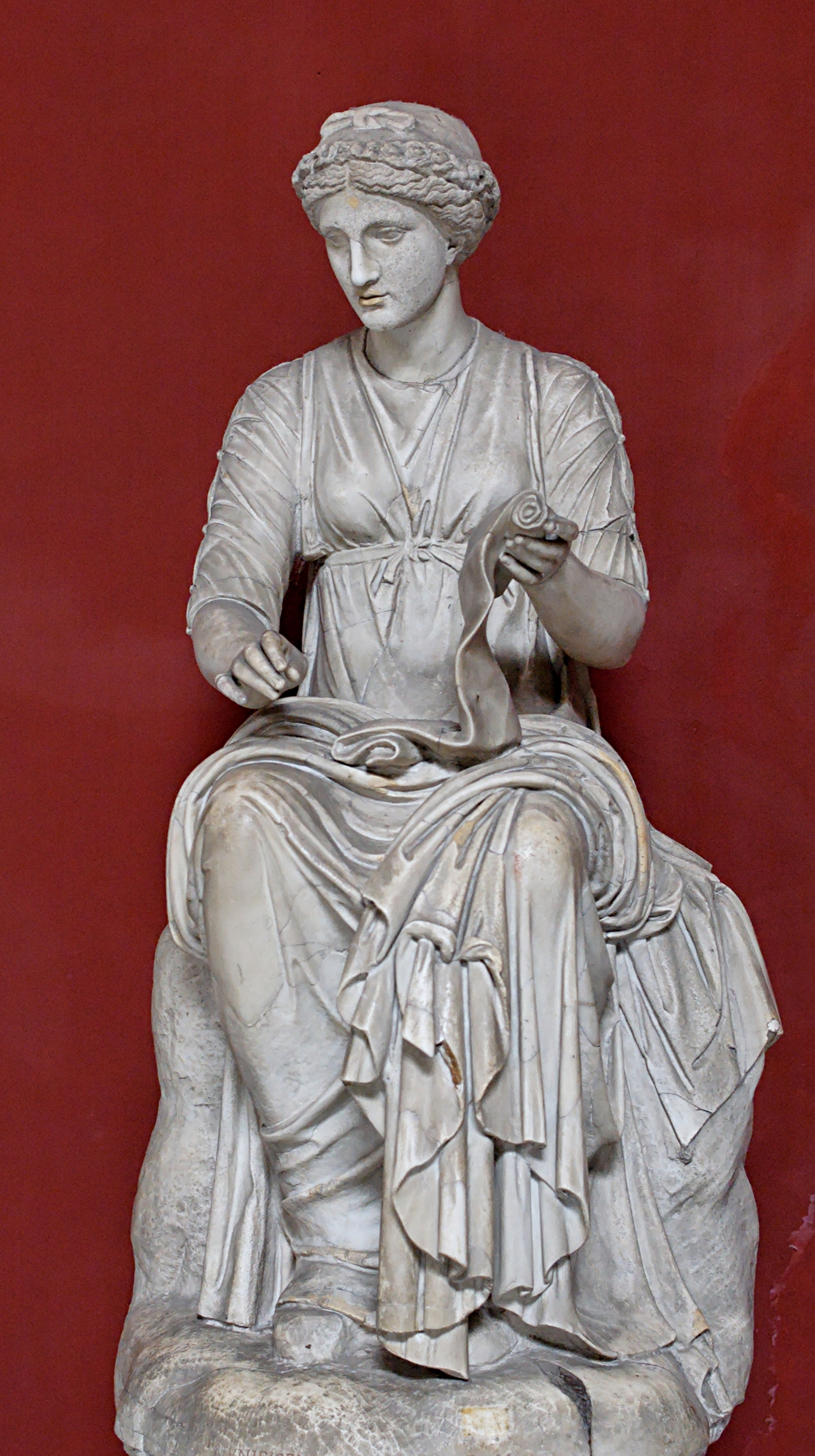 Clio, Muse of history. Marble, Roman artwork from the 2nd century CE. The head does not belong to the statue. From the Villa of Cassius near Tivoli, 1774.